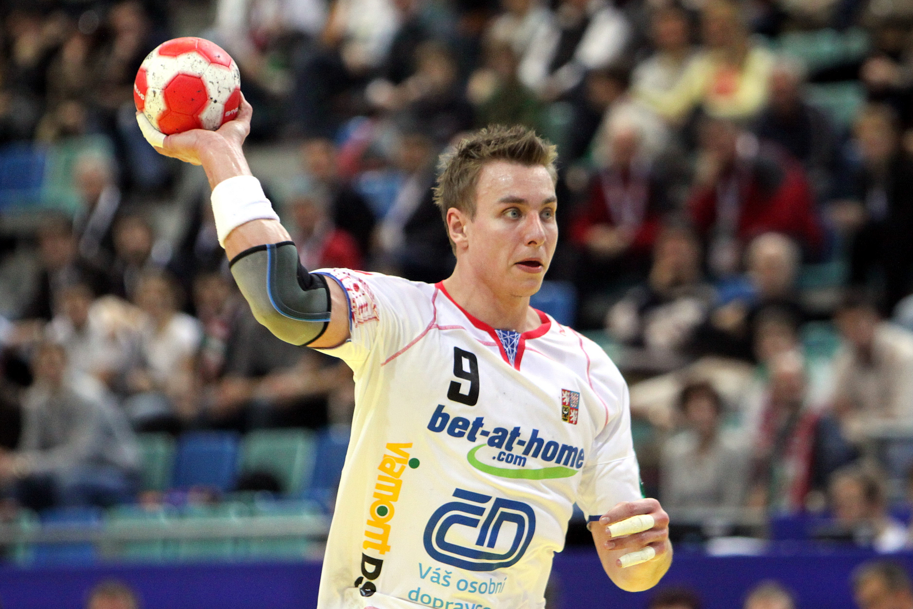 Filip Jícha (THW Kiel), Czech Republic national handball team